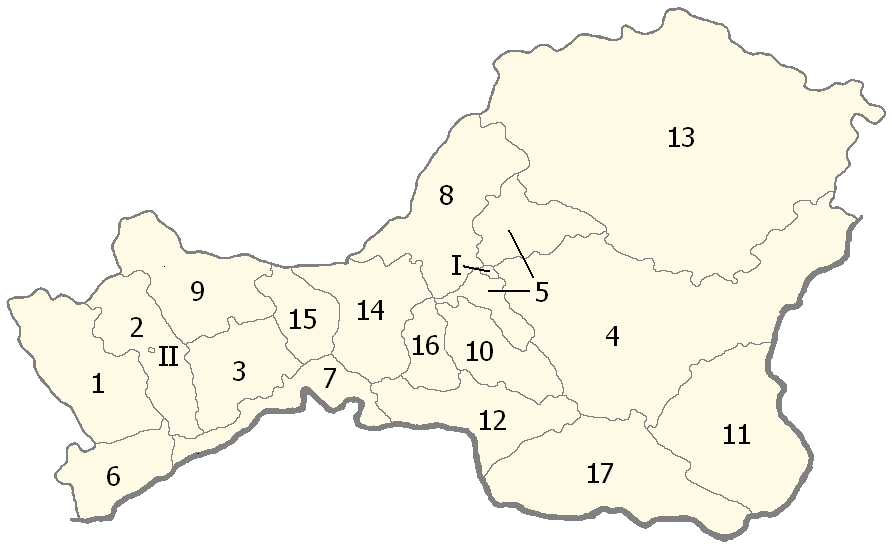 Administrative subdivisions of Tyva, Russia, numbered